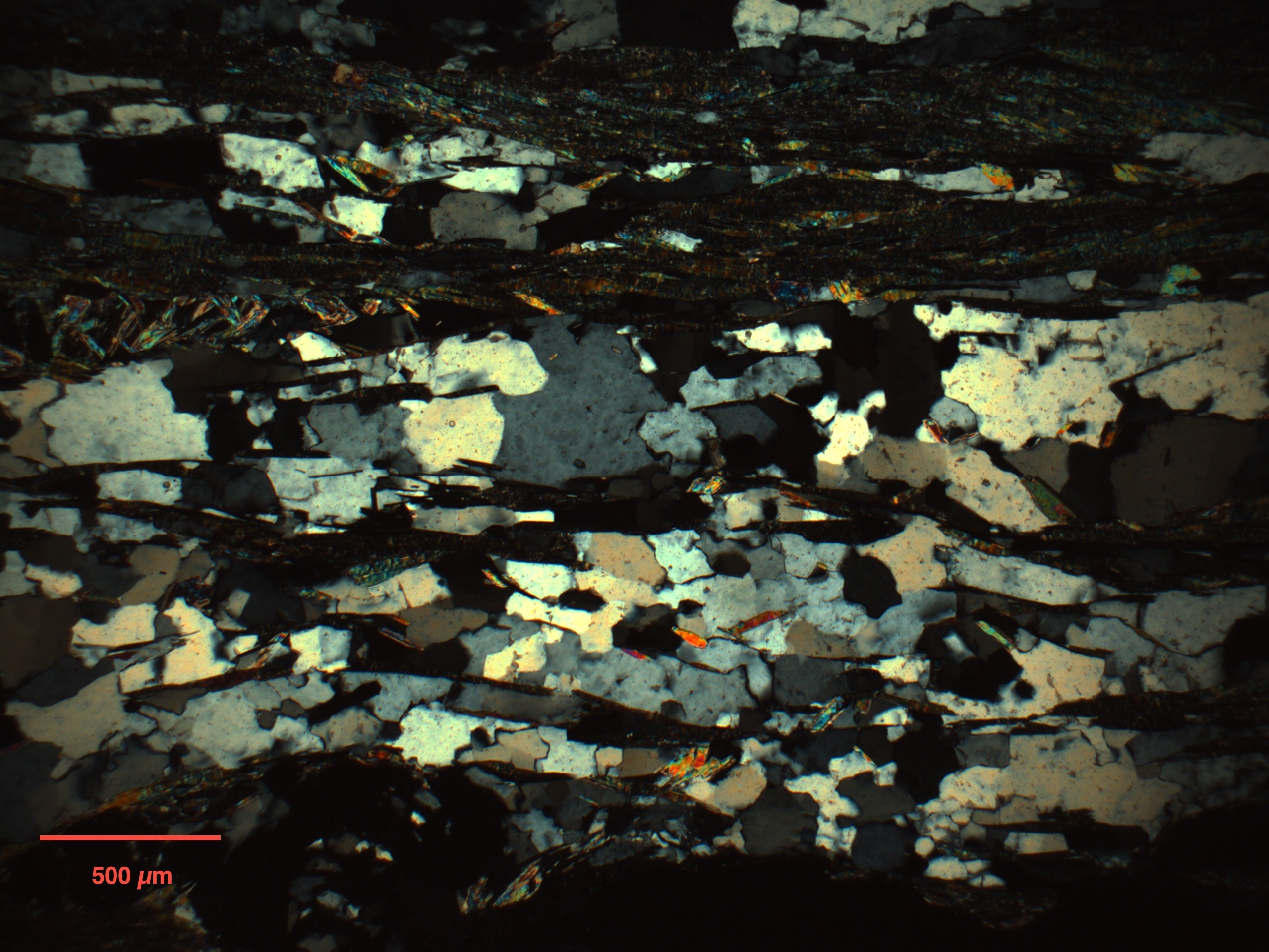 Quartz ribbons showing dominant Subgrain rotation recrystallization